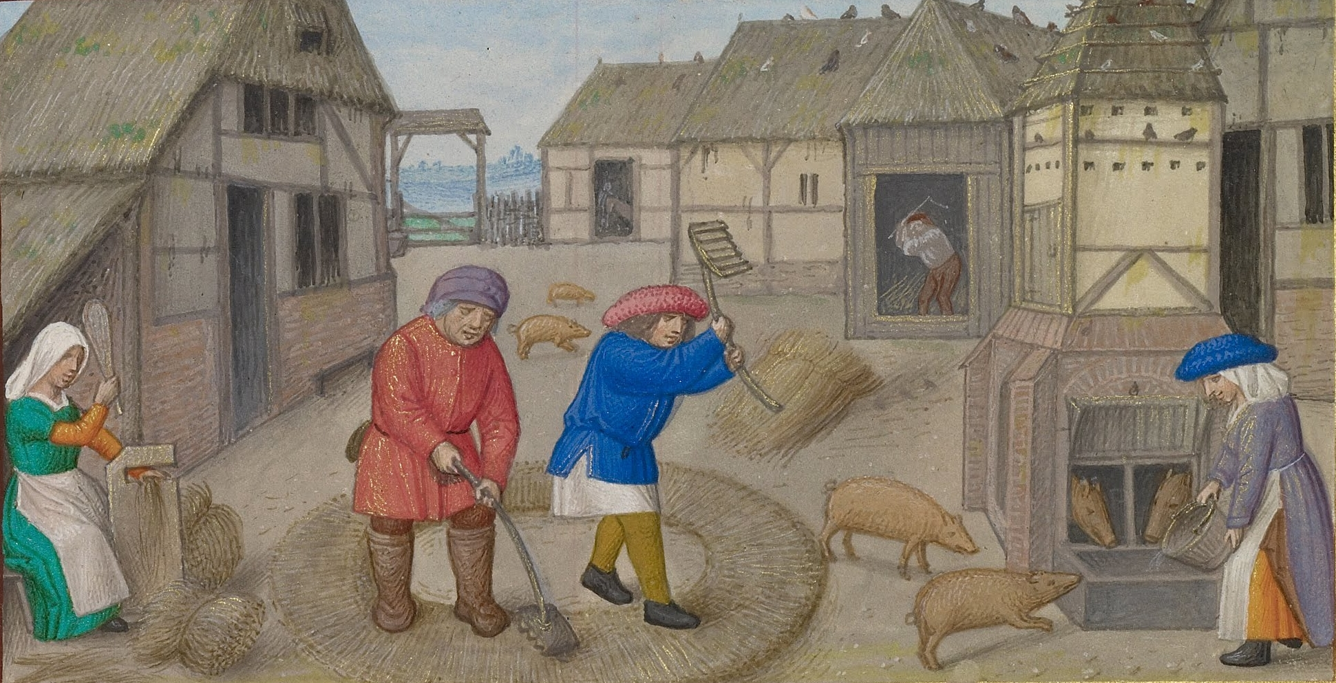 Crop of File:Workshop of the Master of James IV of Scotland (Flemish, before 1465 - about 1541) - Threshing and Pig Feeding; Zodiacal Sign of Sagittarius - Google Art Project.jpg